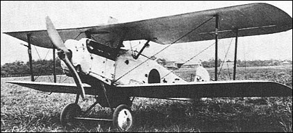 Mitsubishi 1MF3A